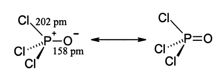 Detailed structure of phosphorus oxychloride. Drawn in IsisDraw and scanned in by User:Walkerma, June 2005.